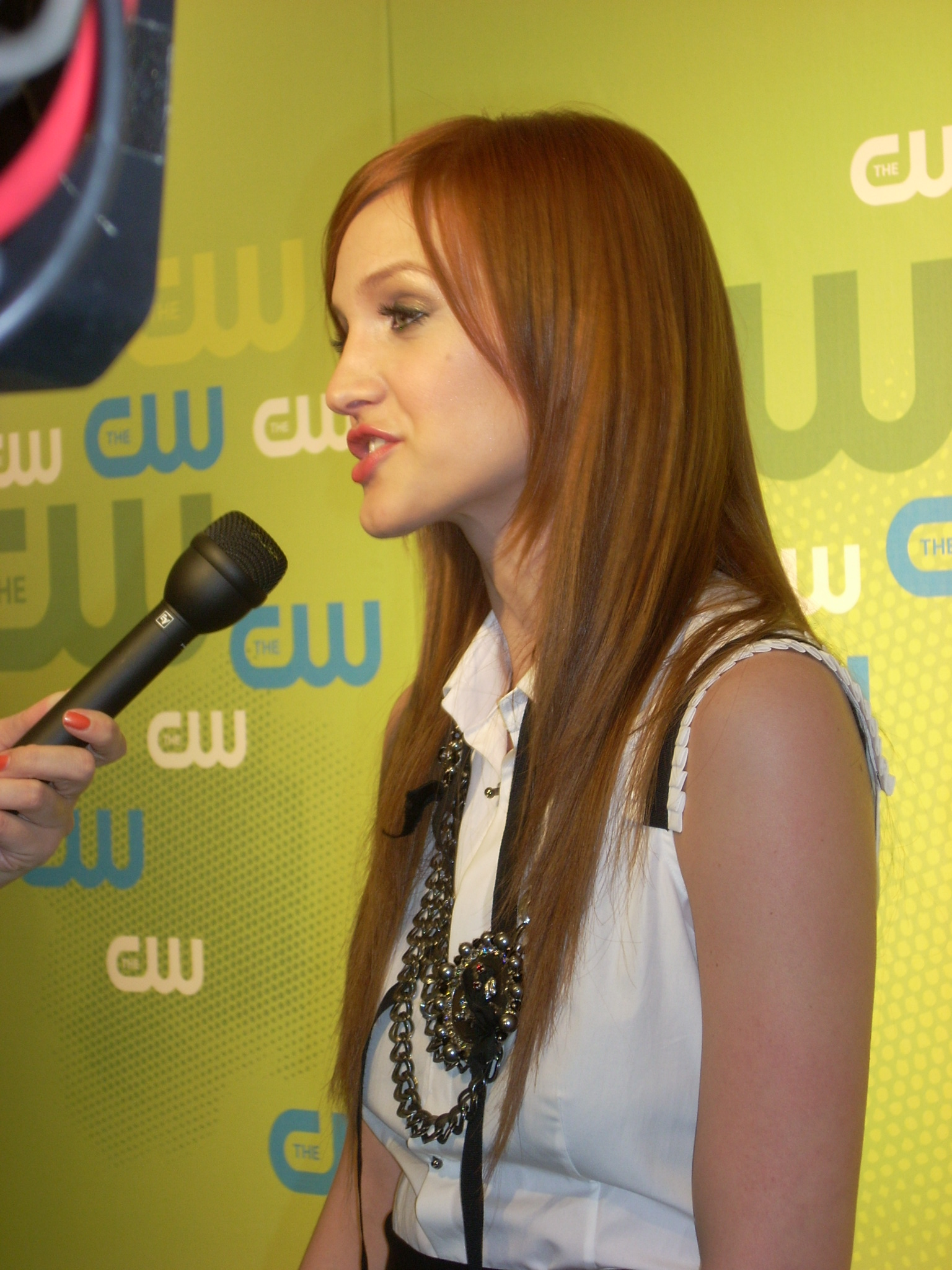 Ashlee Simpson-Wentz at the CW Upfront Presentation: Green Carpet Arrivals, Madison Square Garden, New York City - May 21, 2009